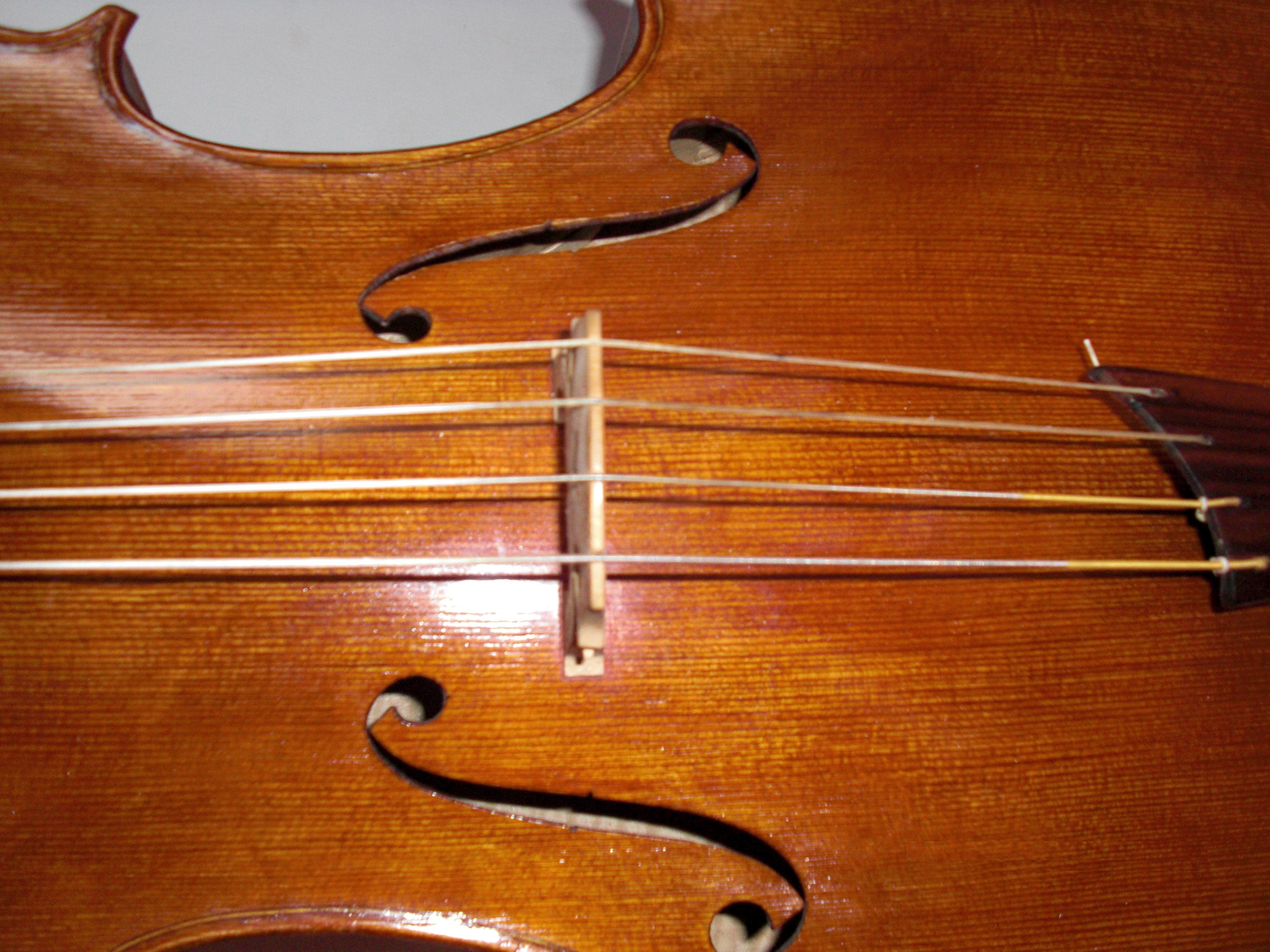 A photo of a cello strung with gut strings.